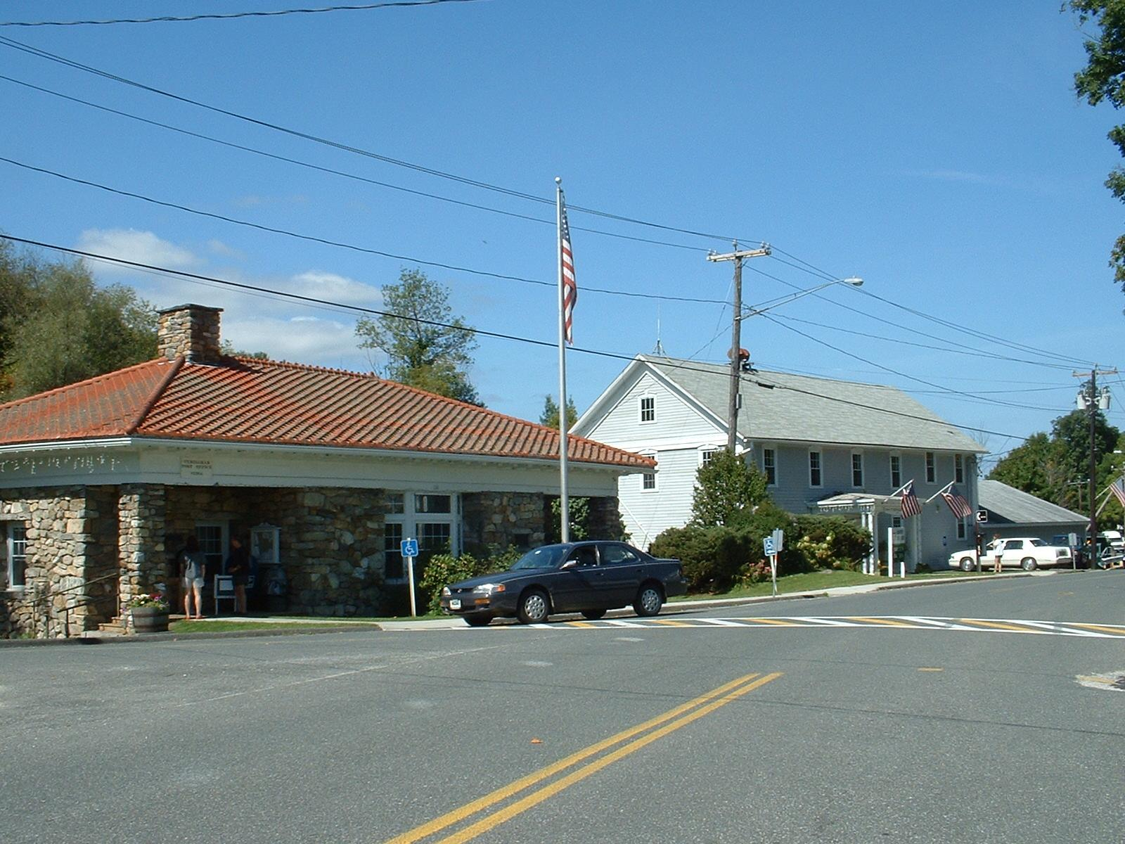 The post office and town hall in Tyringham, Massachusetts, looking west. Taken west of the intersection of Main Rd. and Monterey Rd., Tyringham, MA. The library/post office building is listed on the National Register.